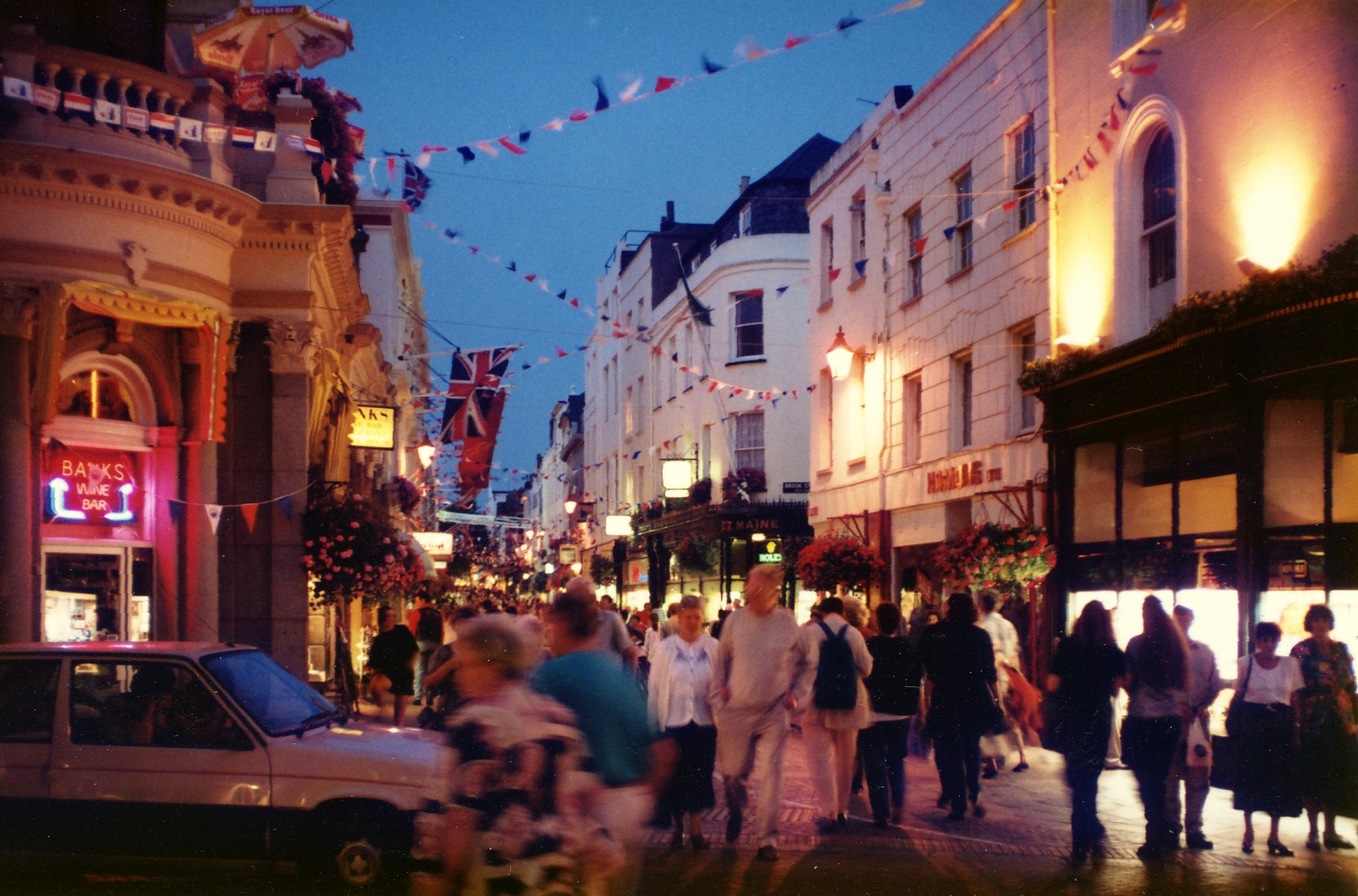 King Street, Saint Helier, Jersey